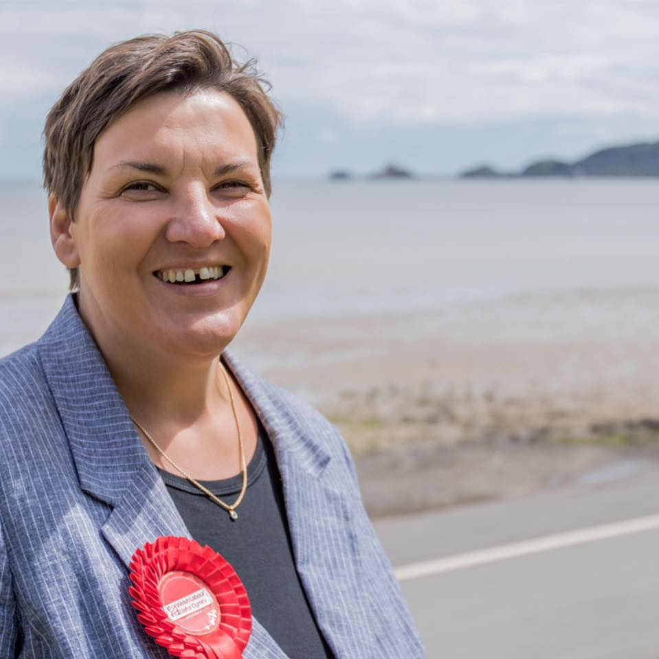 A picture of Tonia Antonizzi, the British Member of Parliament for Gower, taken during her election campaign in 2017.